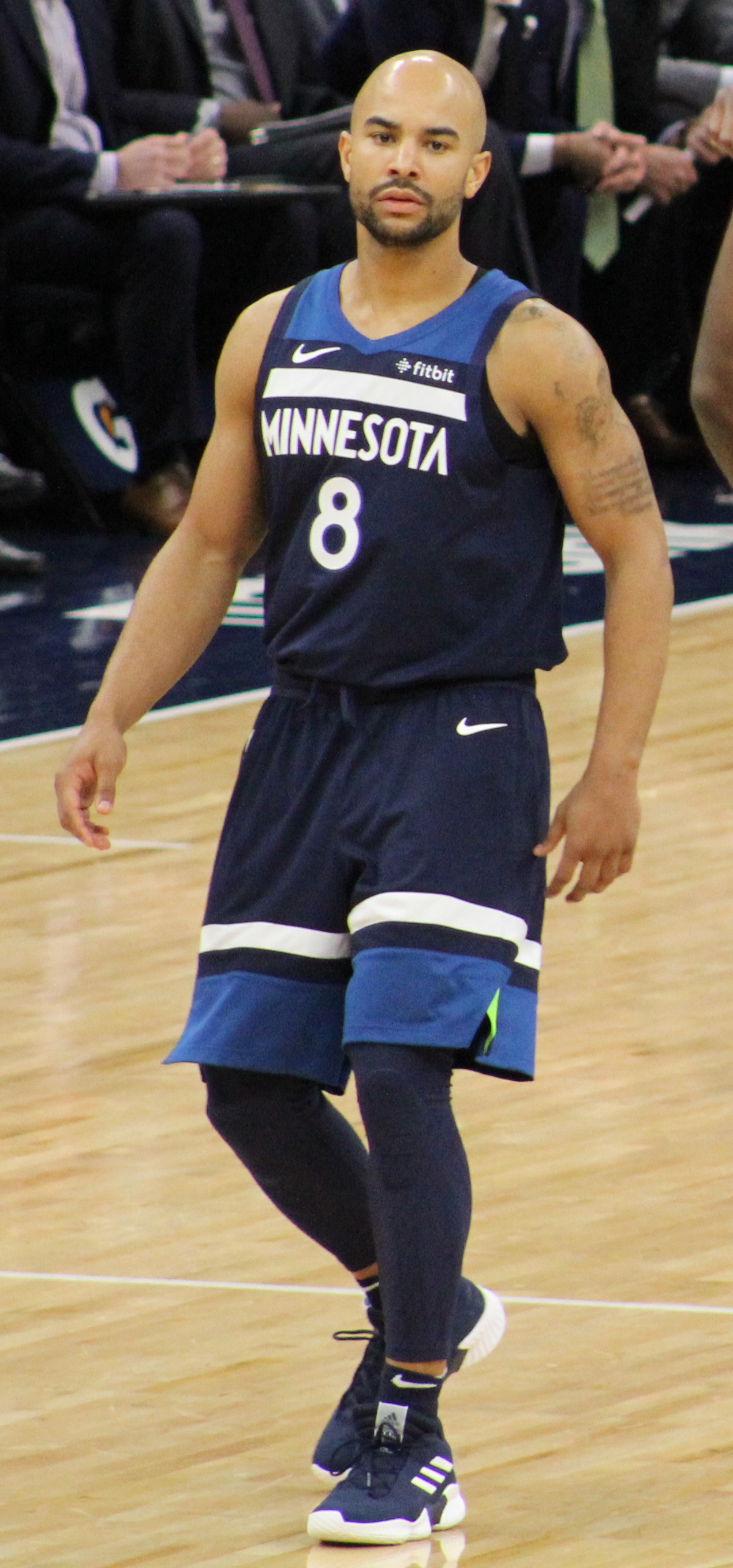 Jerryd Bayless of the Minnesota Timberwolves